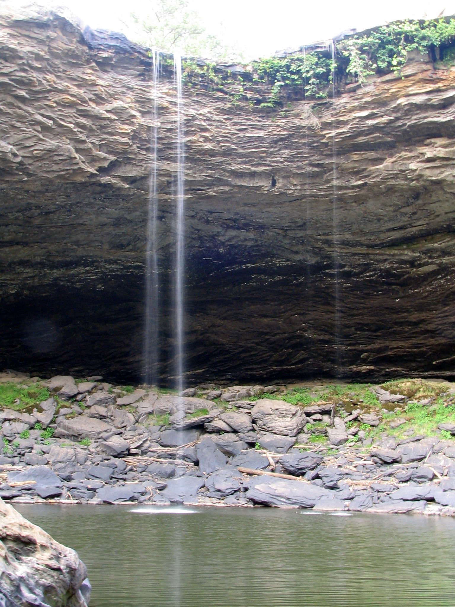 The waterfall is less impressive in the summer when it hasn't rained on Lookout Mountian for a month, but it is still impressive